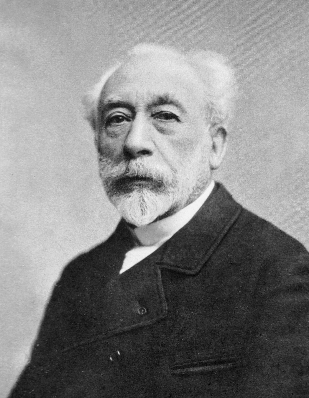 Jaccoud, François Sigismond. 1830-1913